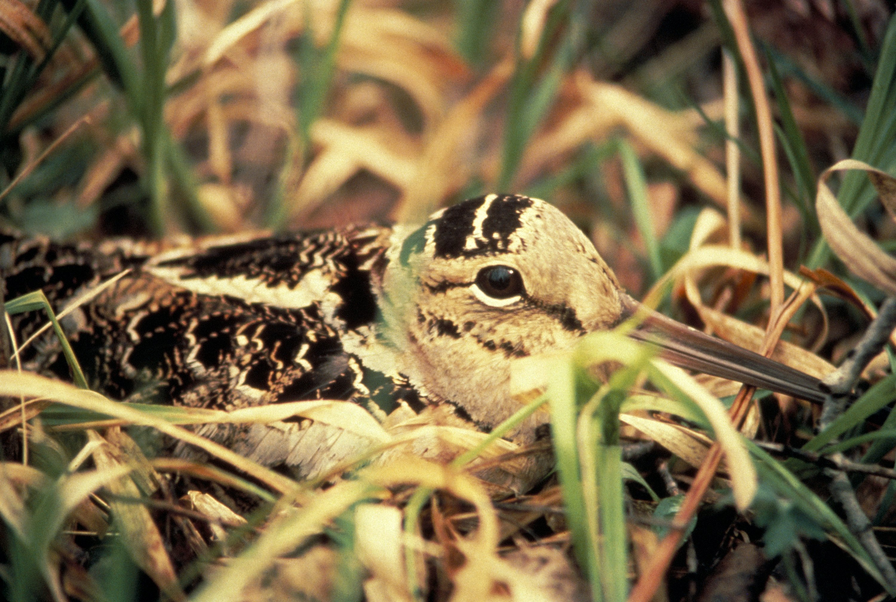 American Woodcock (Scolopax minor) on Nest